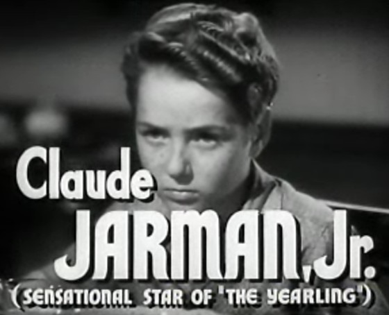 Cropped screenshot of Claude Jarman Jr. from the trailer for the film High Barbaree.